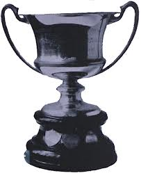 The Copa Beccar Varela, awarded to the winner of "Campeonato Argentino de Football", a regional competition contested by provincial representatives of Argentina. It was first awarded in 1929 (being the Liga Rosarina de Football its first winner) - Not to be confussed with Copa de Honor Beccar Varela.